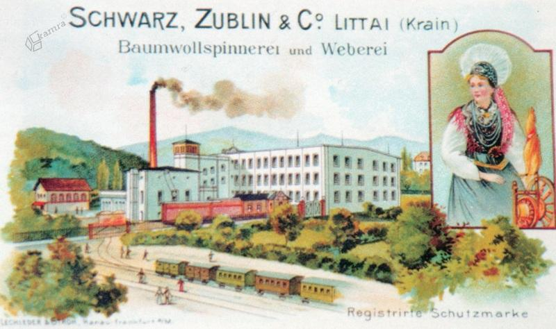 Predilnica Litija in 1899